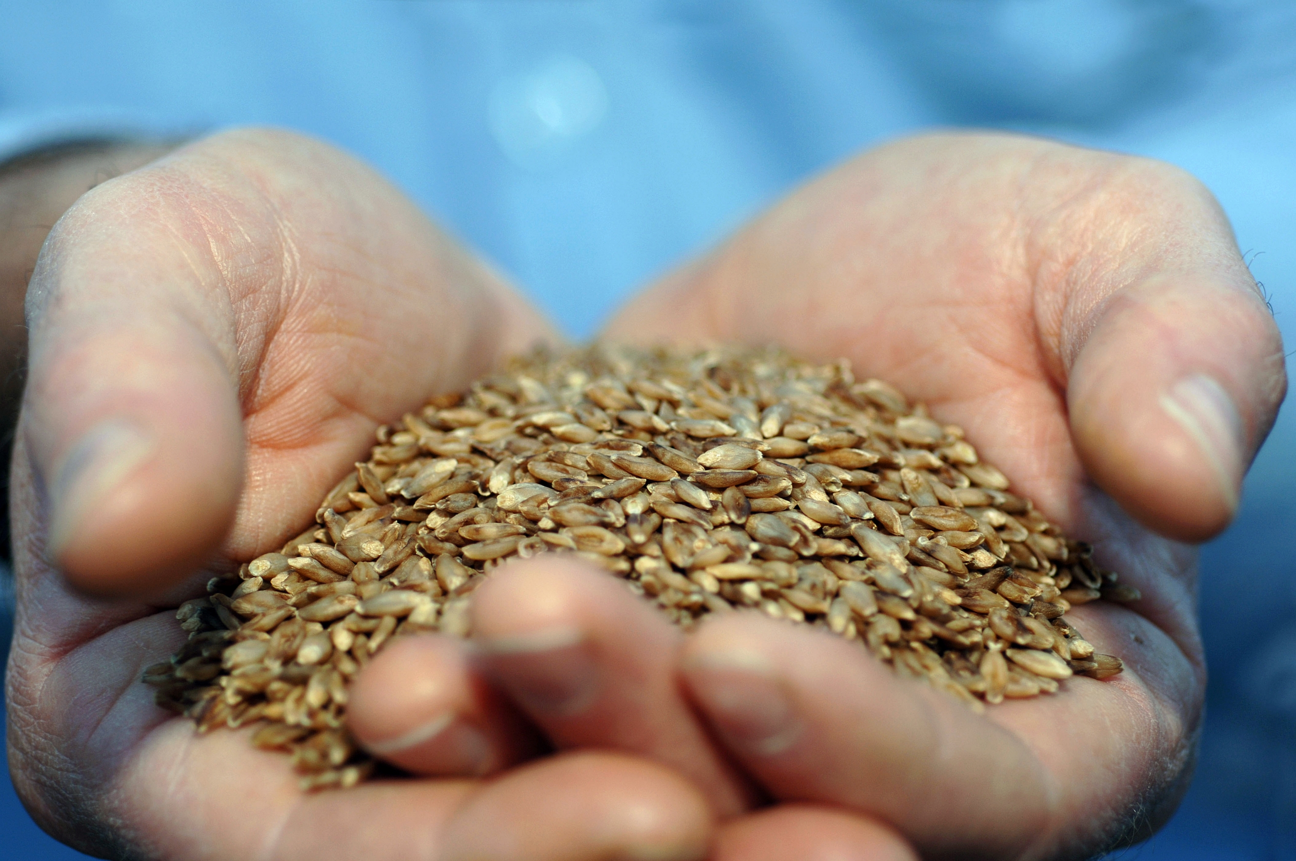 Using traditional plant breeding techniques, CSIRO scientists have developed BARLEYmax™, a new type of barley with significant health benefits. BARLEYmax™ has a unique starch profile, giving it nutritional properties quite different to other grains. BARLEYmax™ can be used to produce foods with a low glycaemic index (GI), which could be useful in managing diabetes. Human trials found that a BARLEYmax™ breakfast cereal had a GI of 50, compared to a conventional barley cereal GI of 77. BARLEYmax™ has high levels of β-Glucan, a soluble fibre with cholesterol lowering properties. The grain is also high in insoluble dietary fibre and resistant starch, which have important roles in maintaining bowel health. Resistant starch takes longer to digest, helps regulate blood sugar and promotes healthy digestive bacteria.